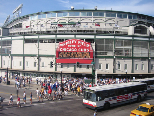 Wrigley Field, Chicago Cubs